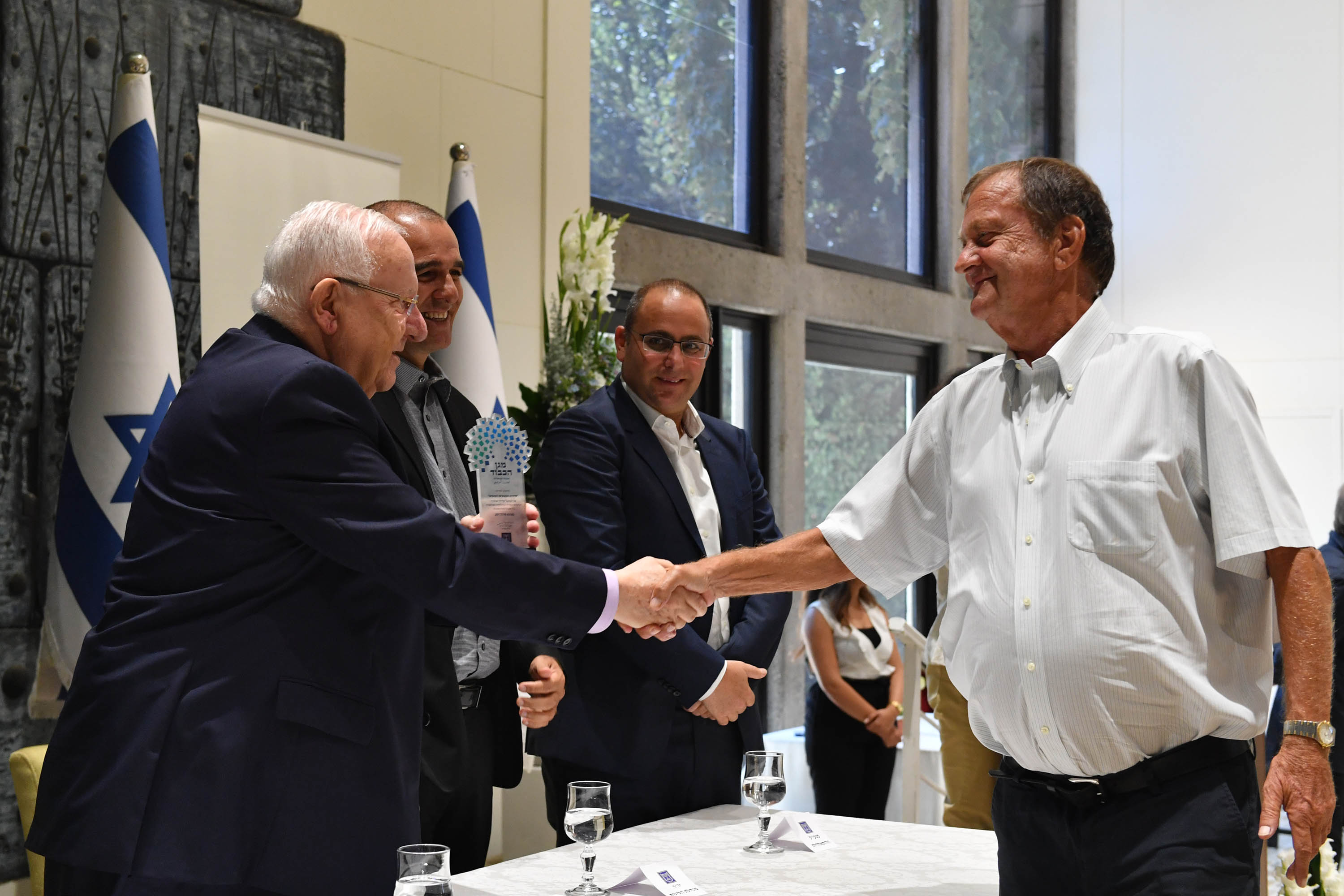 .". אירוע מתן אות כבוד של נישא מדינת ישראל "מגן הכבוד: תקווה ישראלית האות ניתן על ידי בית הנשיא בשותפות עם משרד התרבות והספורט וההתאחדות לכדורגל לקבוצות וגופים הפועלים בענף הכדורגל בישראל שהצטיינו בעשייה ערכית וחינוכית ובמאבק באלימות ובגזענות , בתמונה: איזי שרצקי, בעלים של הפועל קריית שמונה